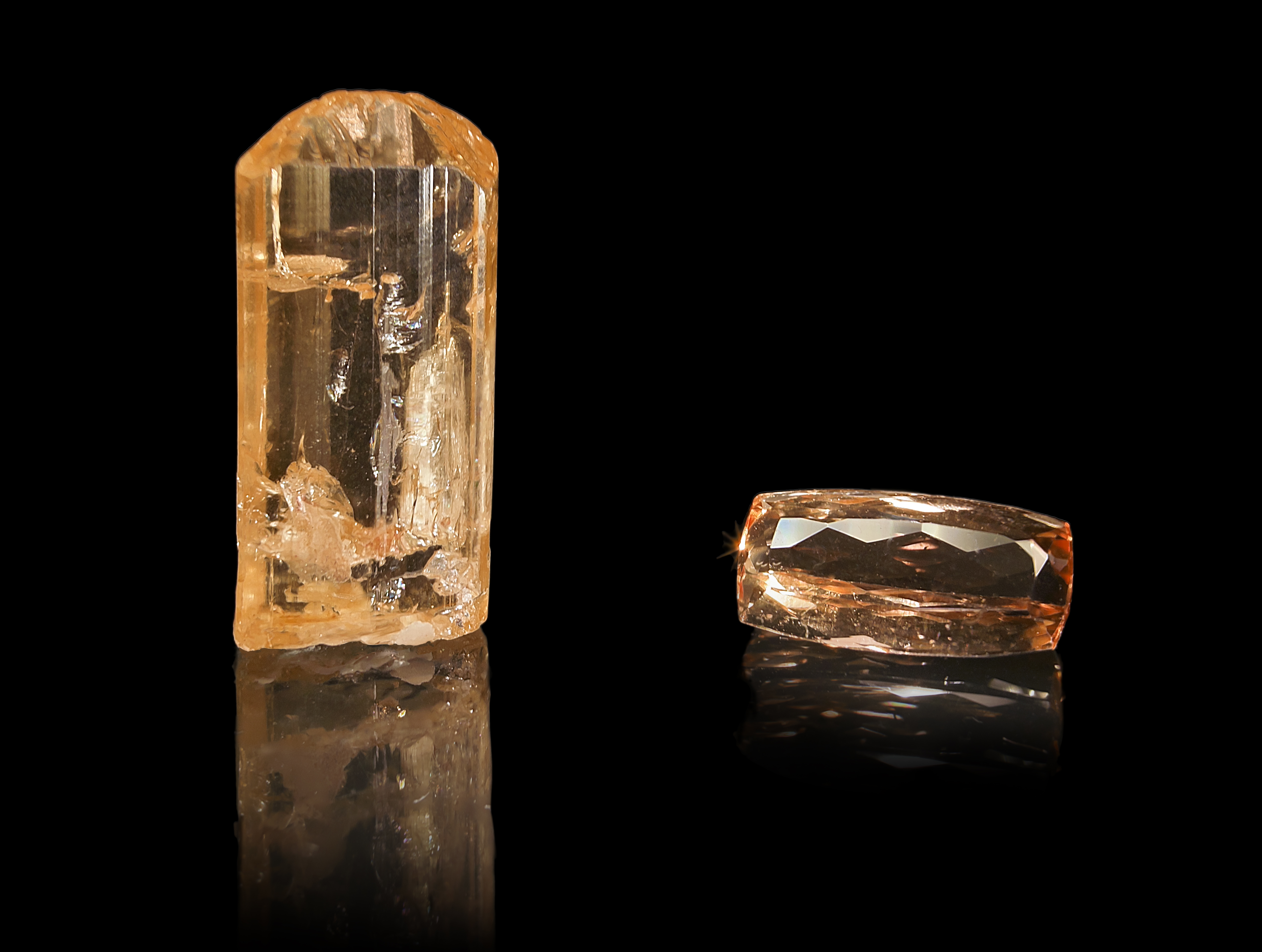 Topaz - Vermelhão Mine, Saramenha, Ouro Preto, Minas Gerais, Southeast Region, Brazil - (2.2x1cm) (Cut -1.2x06.cm)